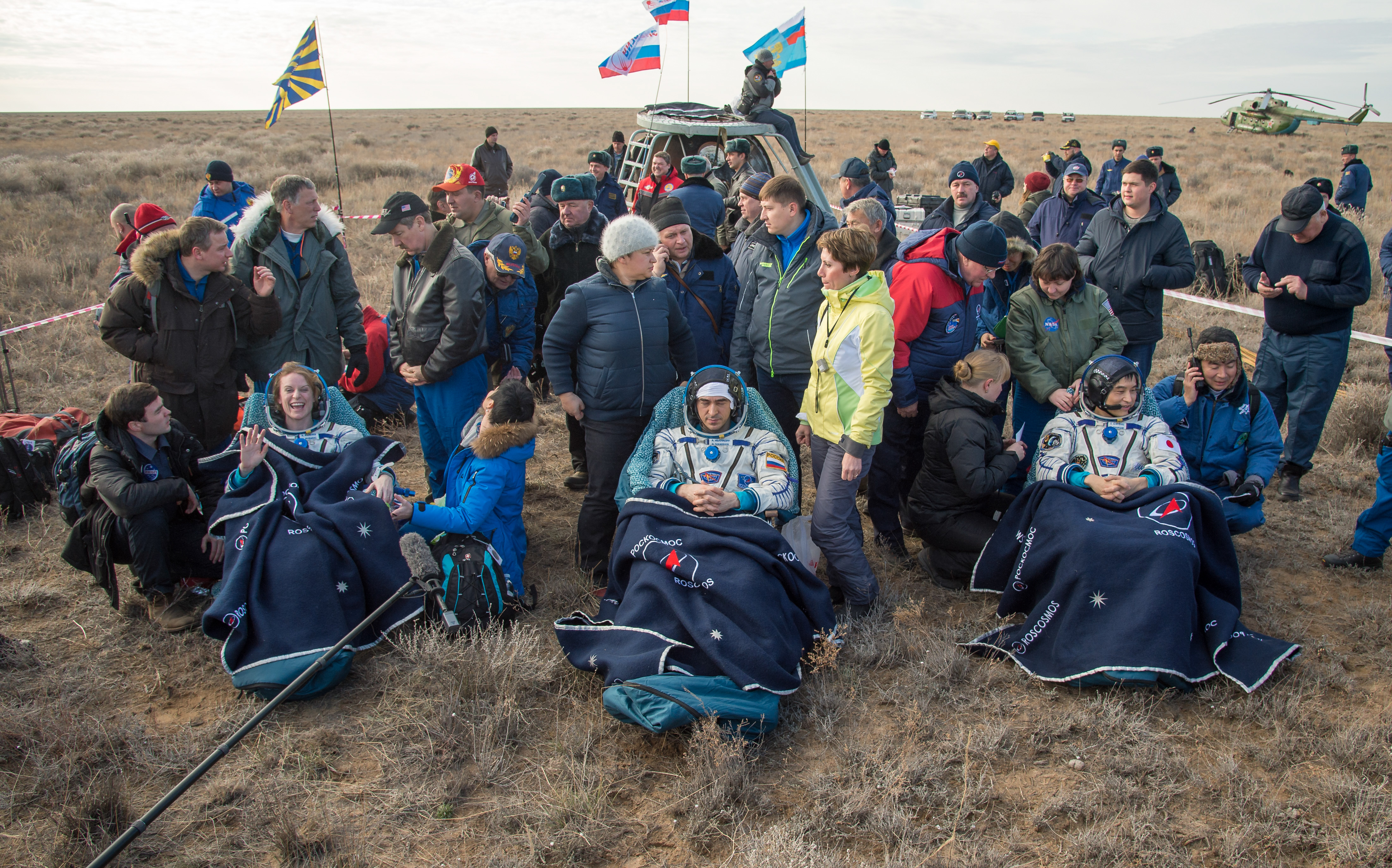 NASA astronaut Kate Rubins, left, Russian cosmonaut Anatoly Ivanishin of Roscosmos, center, and astronaut Takuya Onishi of the Japan Aerospace Exploration Agency (JAXA) sit in chairs outside the Soyuz MS-01 spacecraft a few moments after they landed in a remote area near the town of Zhezkazgan, Kazakhstan on Sunday, Oct. 30, 2016 (Kazakh time).Rubins, Ivanishin, and Onishi are returning after 115 days in space where they served as members of the Expedition 48 and 49 crews onboard the International Space Station.